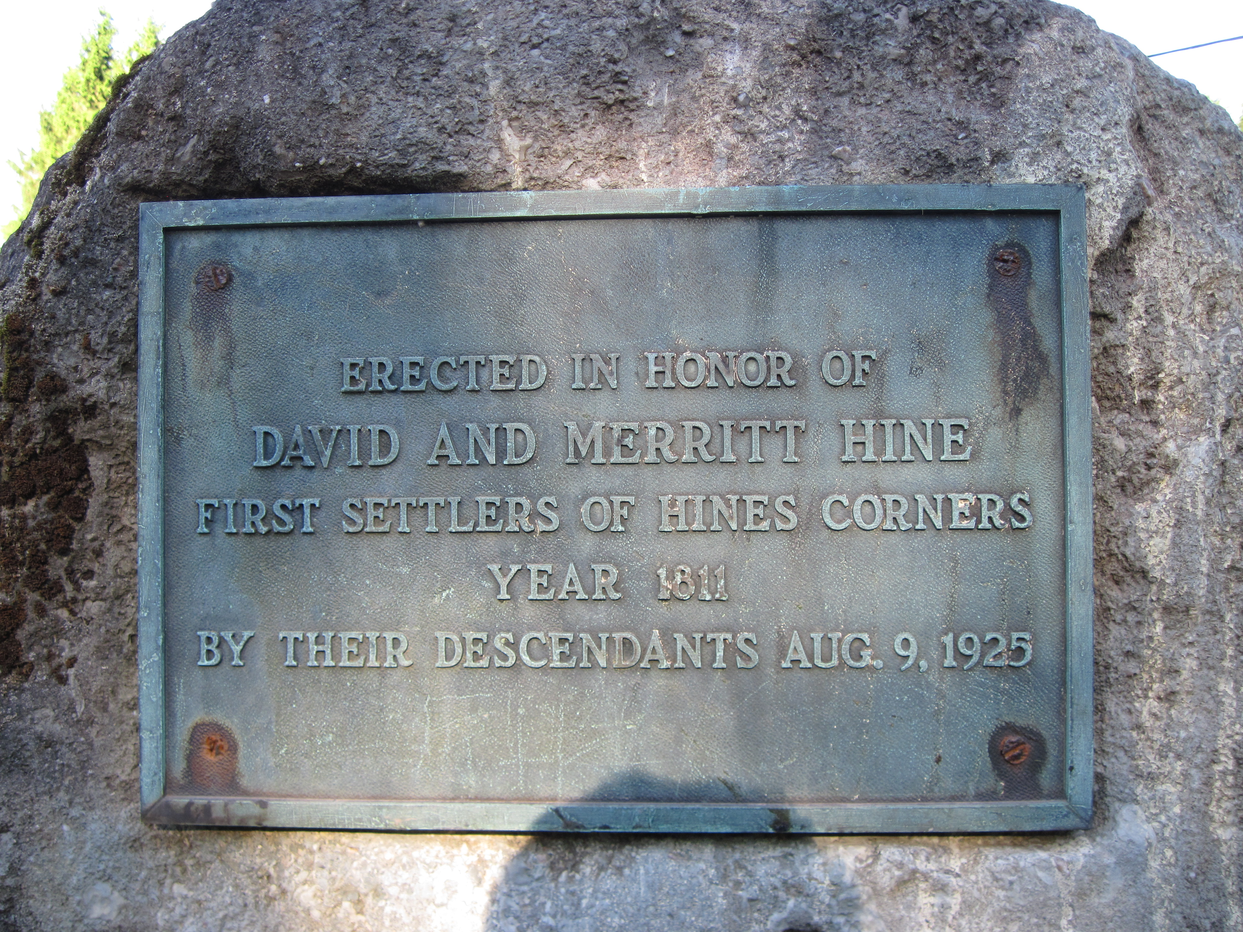 The plaque commemorating the founding of Hine's Corners (spelled Hines Corners on the plaque and in some other places) by Merritt and David Hine. The plaque, attached to a rock located at the intersection of Clark Rd and Oxbow Rd (often called Hines Corners on modern maps), was placed by descendants of the Merritt and David on August 9, 1925. Although it claims that Hine's Corners (which was later relocated be centered on the intersection of Crosstown Hwy and Belmont Tpke and renamed Orson) was founded in 1811, this is probably erroneous; all available historical sources dating closer to the founding put it between 1831 and 1841, with 1811 as the year that Merritt Hine came to Pennsylvania from Connecticut (or possibly Massachusetts), but say that he lived first in Ararat, in Ararat Township in Susquehanna County.